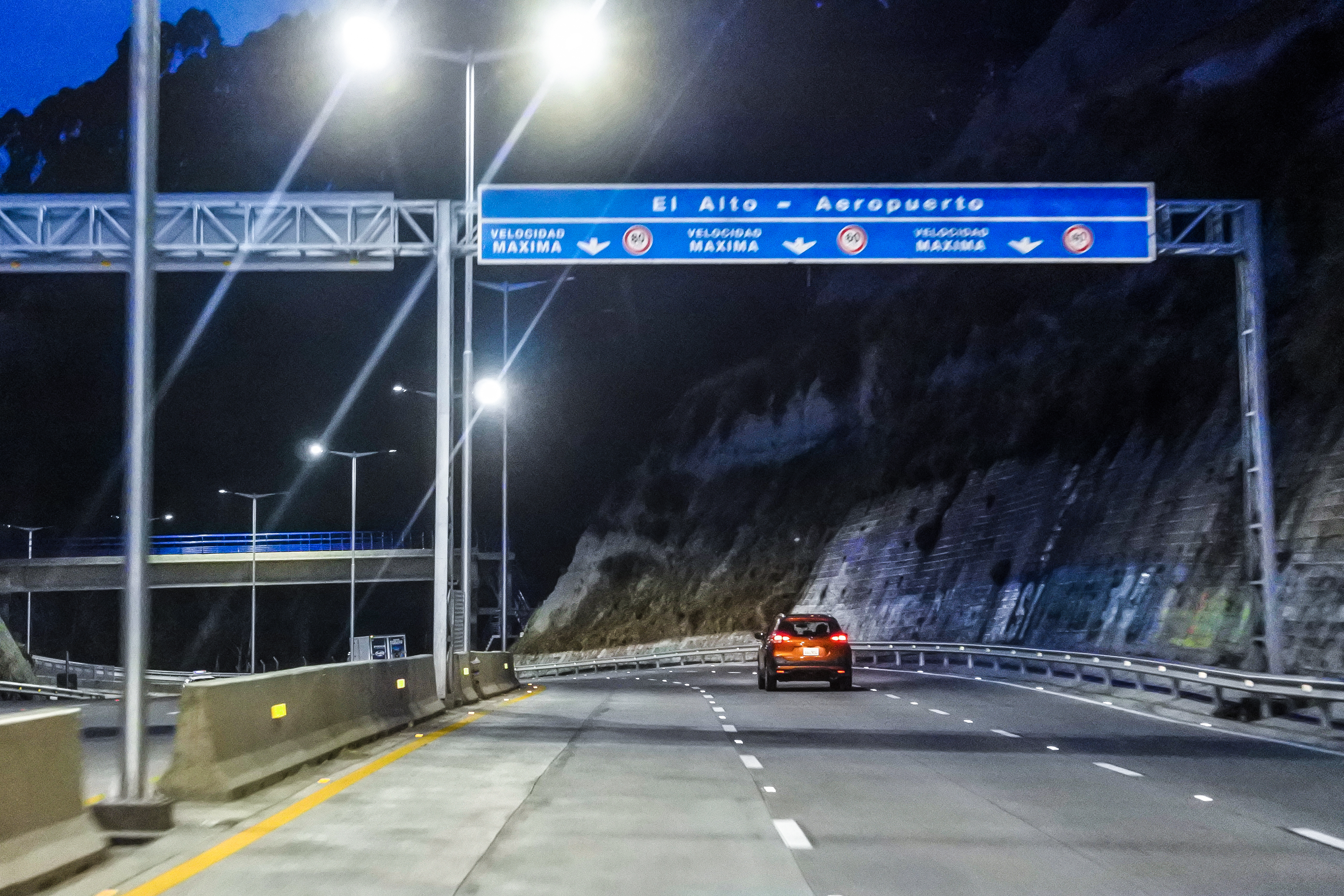 Westbound between La Paz and El Alto